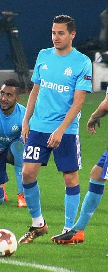 Florian Thauvin with Olympique de Marseille in 2018.